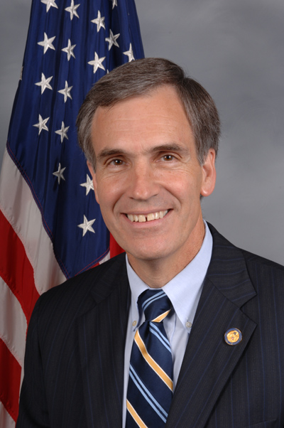 United States Congressman Tom Allen (D- Maine) official portrait